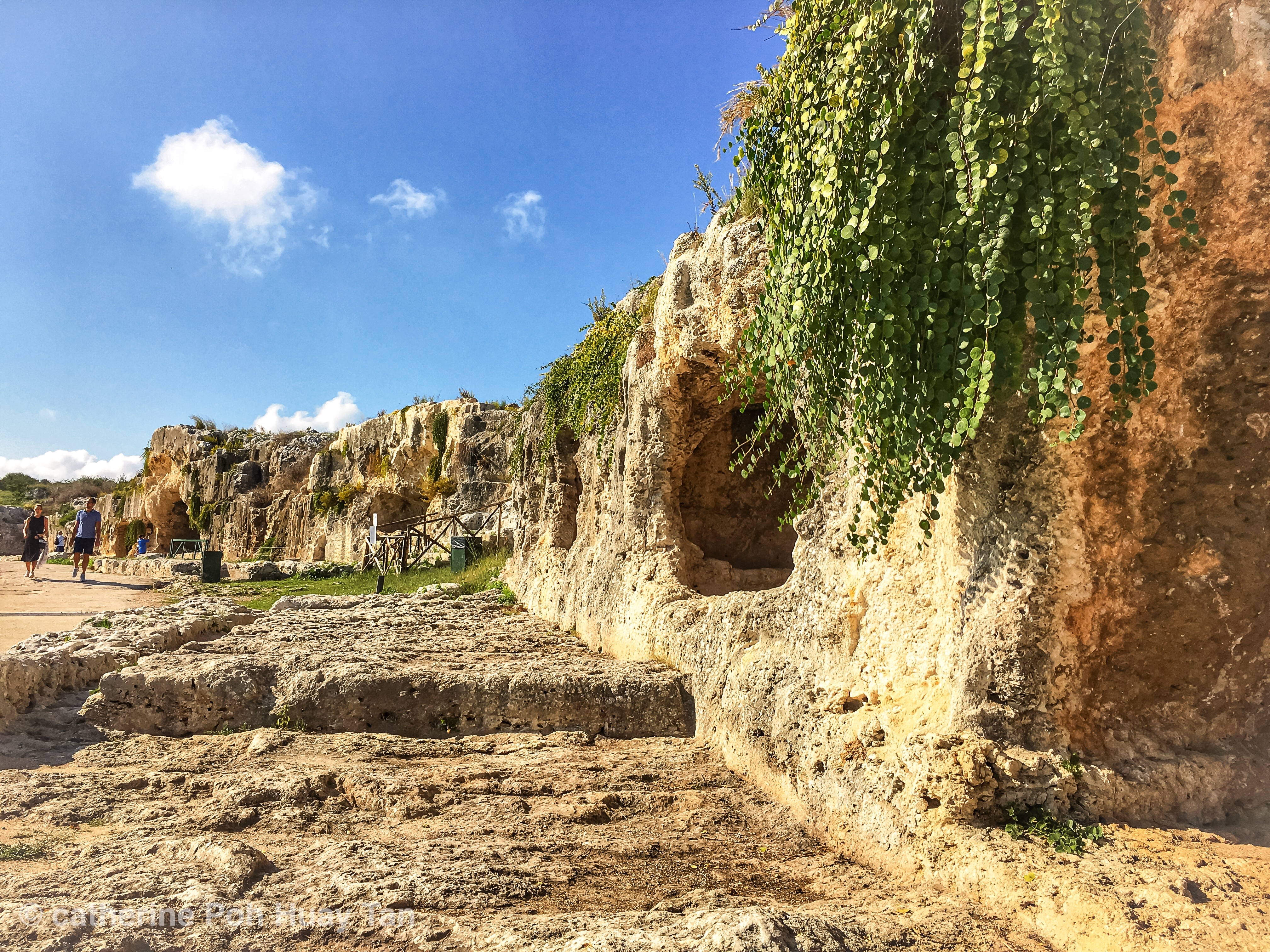 Teatri Greco, Siracusa, Sicily